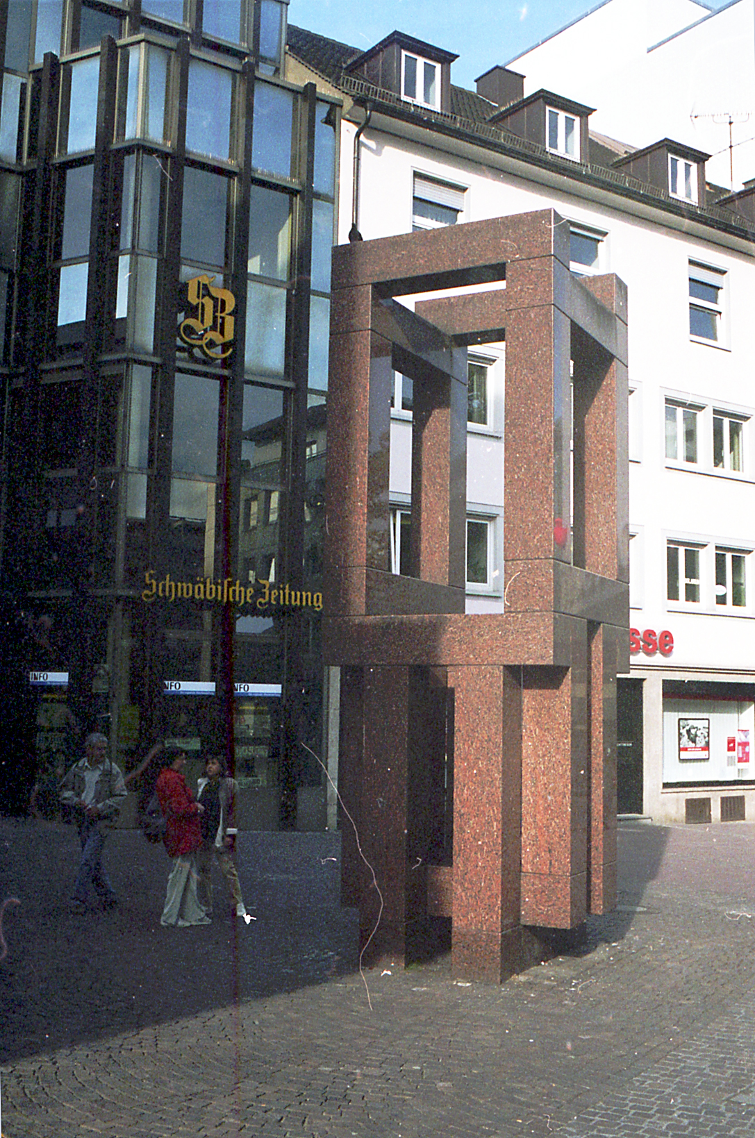 Einstein-memorial by Max Bill from 1979 in Ulm/Germany